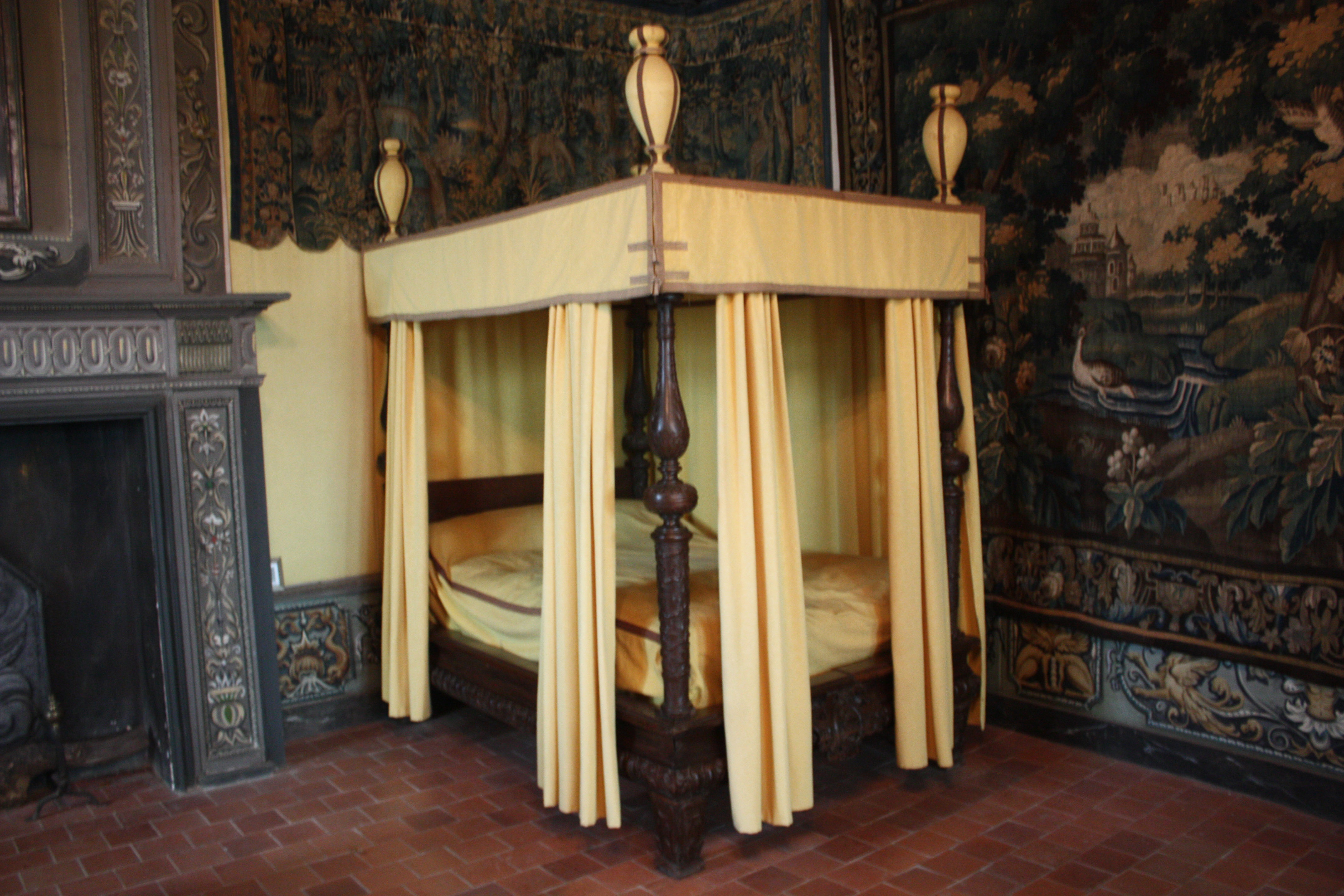 The bed of Claudius of Urfé, surrounded by Aubusson tapestries, Castle Bastie d'Urfe, St. Stephen the Molard, Loire, France.